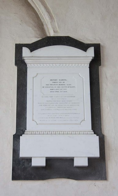 St Margaret of Antioch, Norfolk - Wall monument